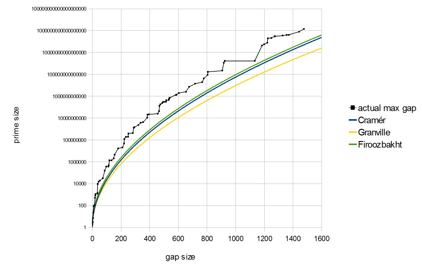 Excel diagram of relation between primegaps and primes